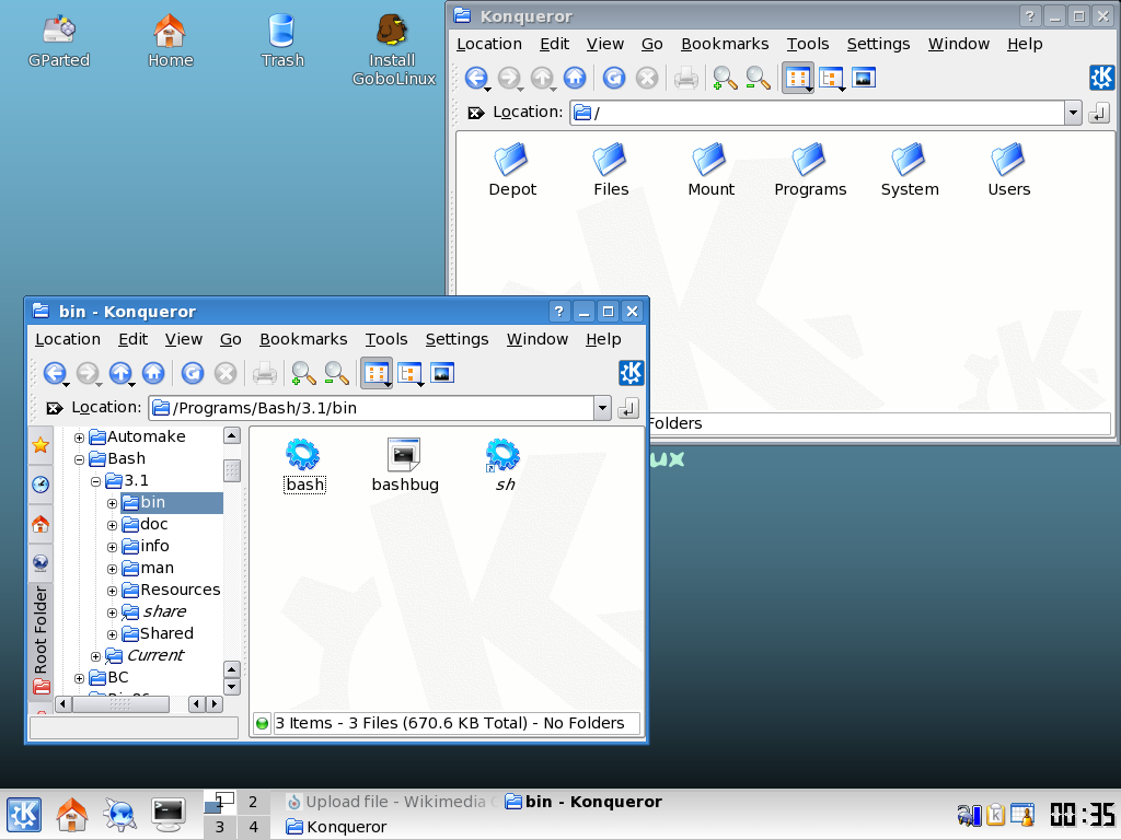 screenshot shows gobolinux filesystem